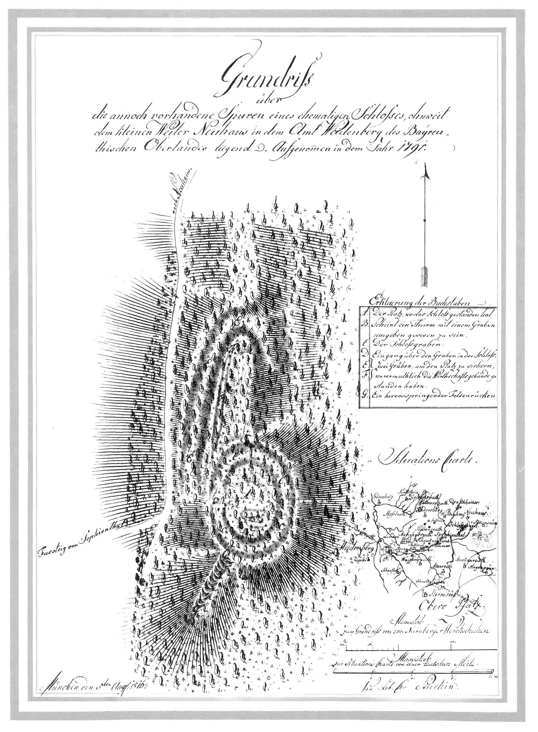 1791 sketch of the castle site of Schlosshügel near Weidenberg in Bavaria, Germany